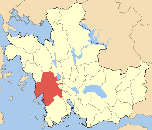 Locator map of Astakou municipality (Δήμος Αστακού) at Aitoloakarnania perfecture, Greece.